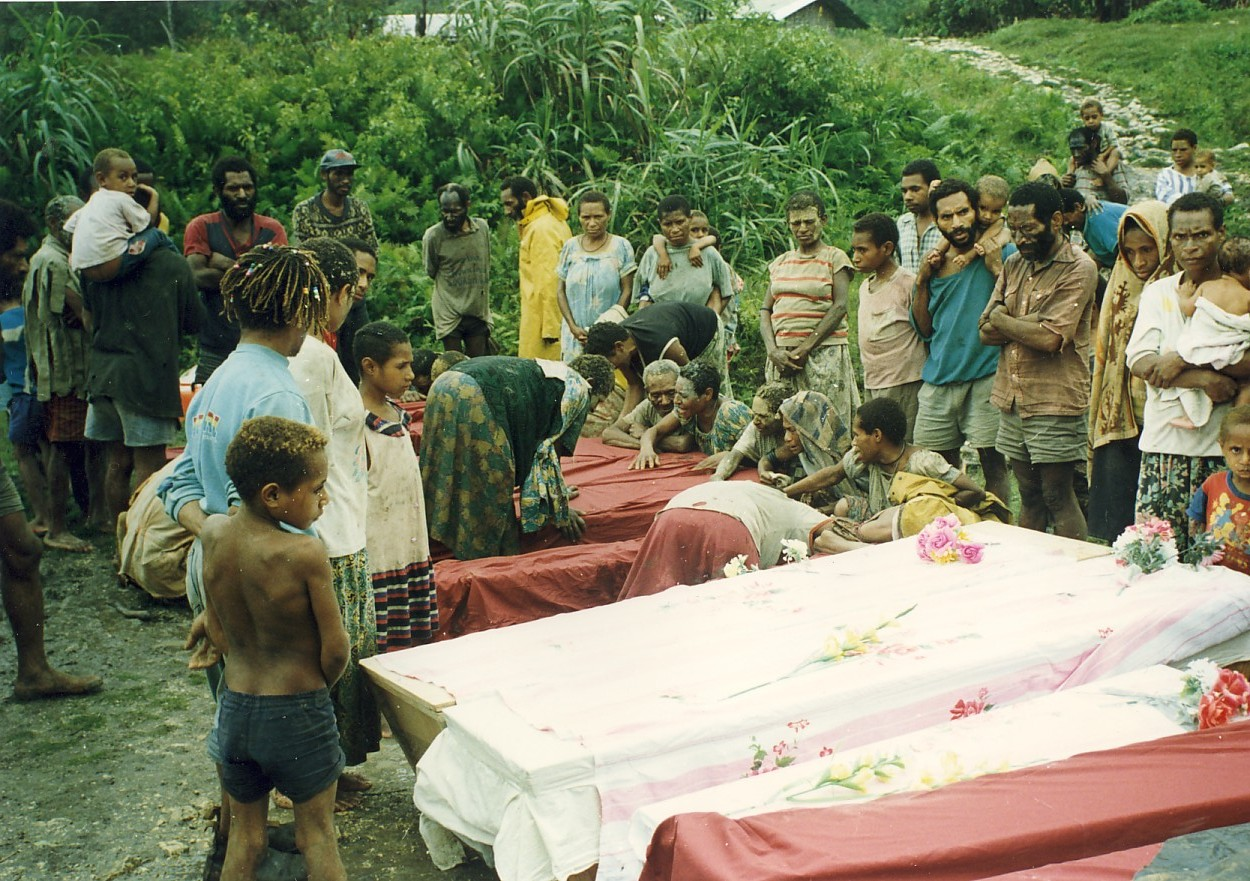 Funeral for the PNG nationals killed in the P2-MFS crash at Selbang villiage.